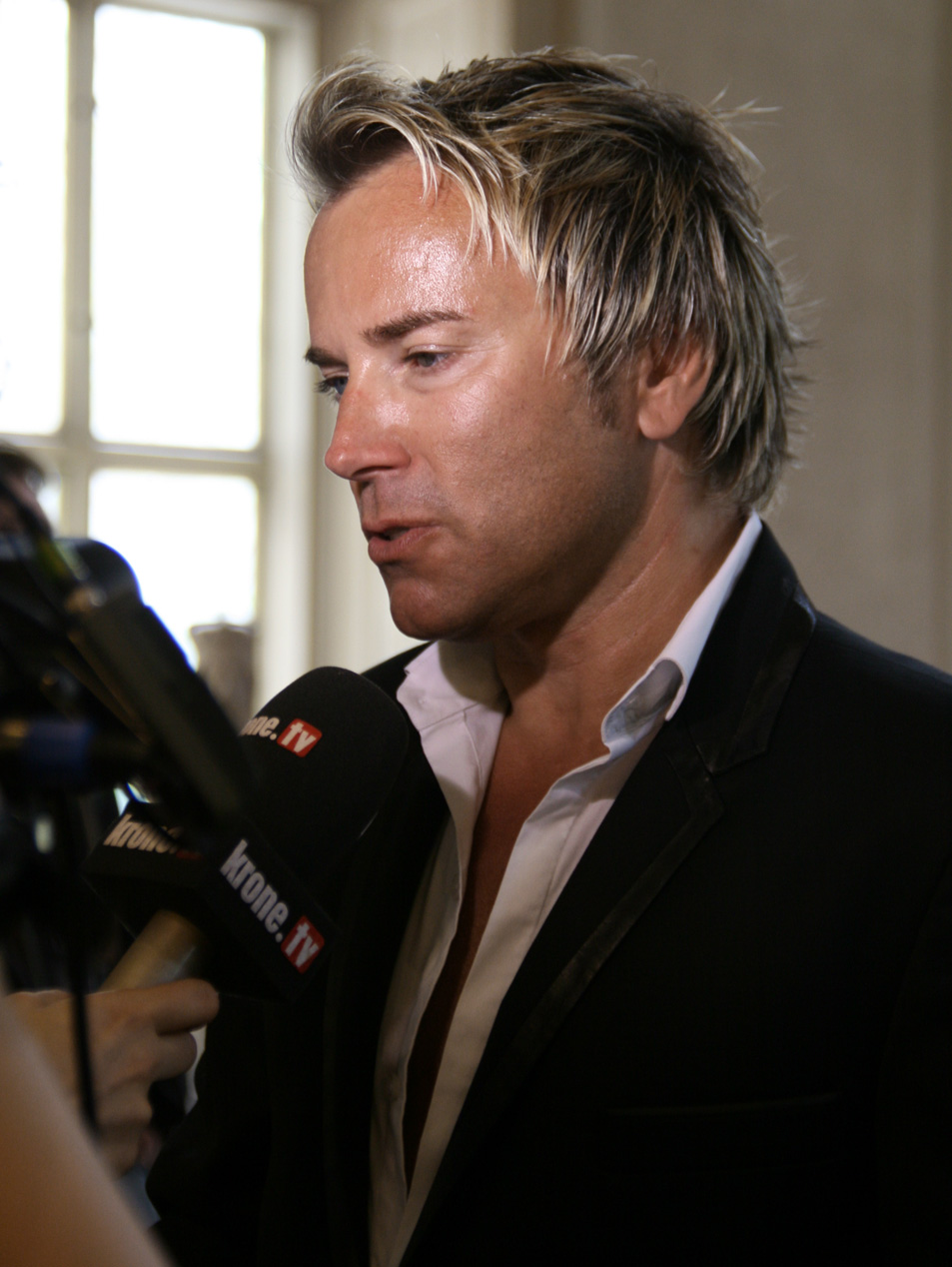 Uwe Kröger during a press conference for the charity ball dancer against cancer (Palais Auersperg, Vienna)